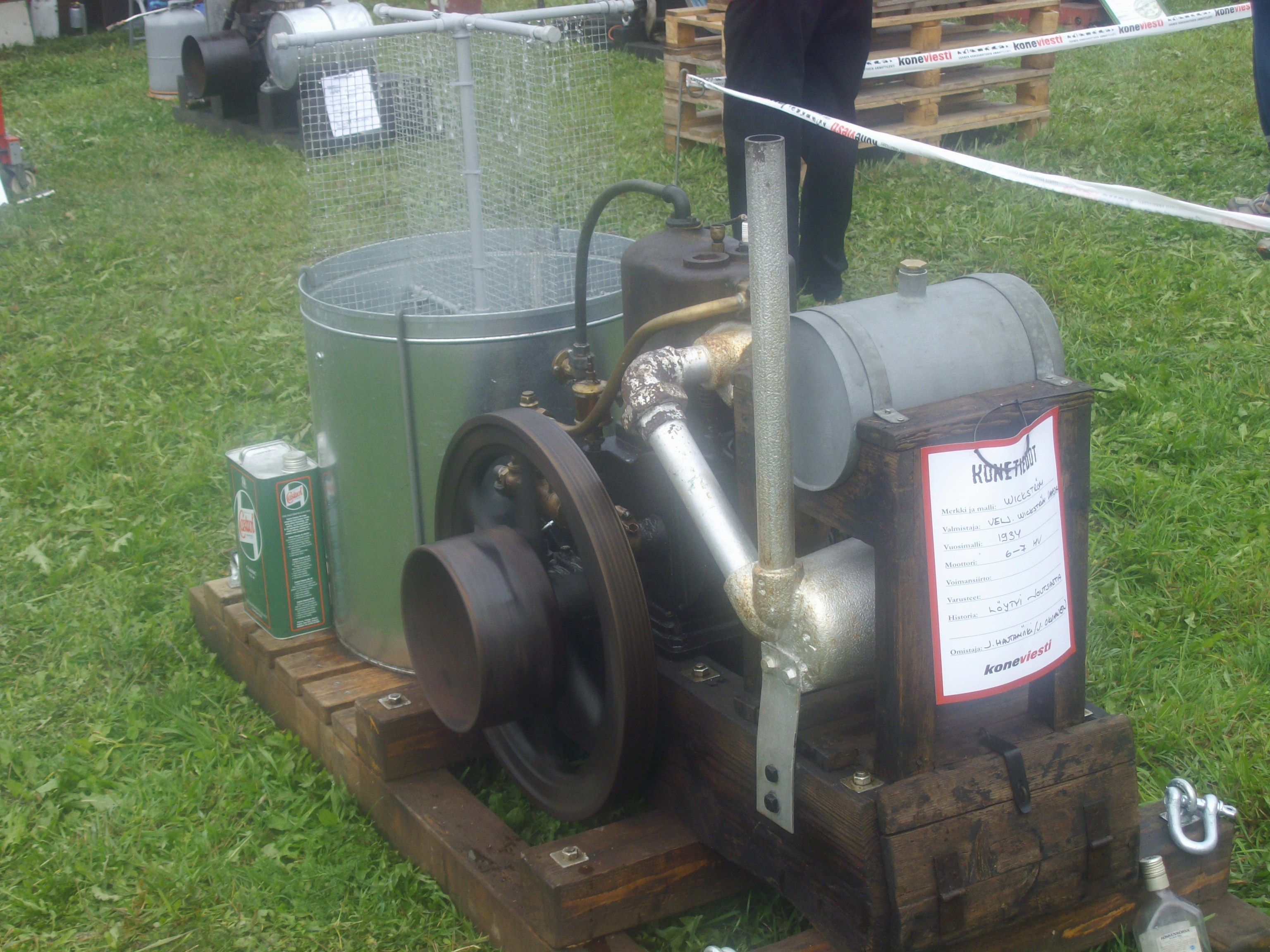 Stationary engine made by Wickström in Vaasa, Finland 1934. 6–7 horsepower. Picture taken during "Rauta ja petrooli 2011" exhibition at Hyvinkää